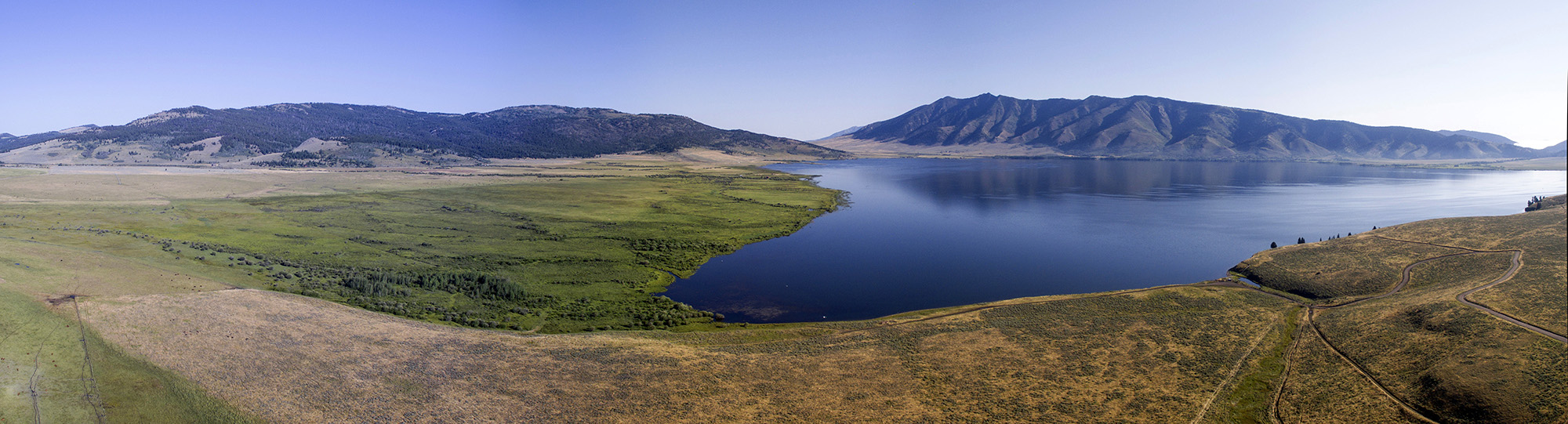 West end of Henrys Lake is wetlands, breeding area for birds.